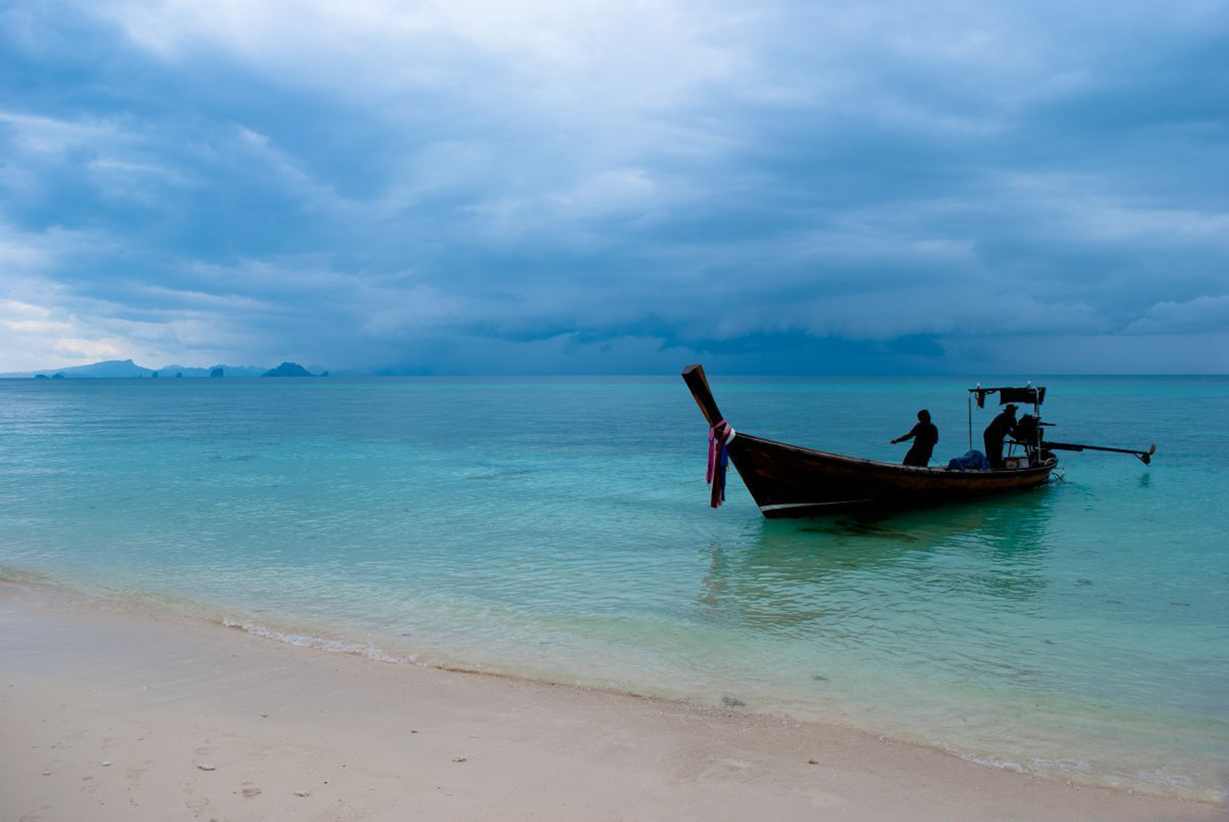 Coral Island, Phuket, Thailand